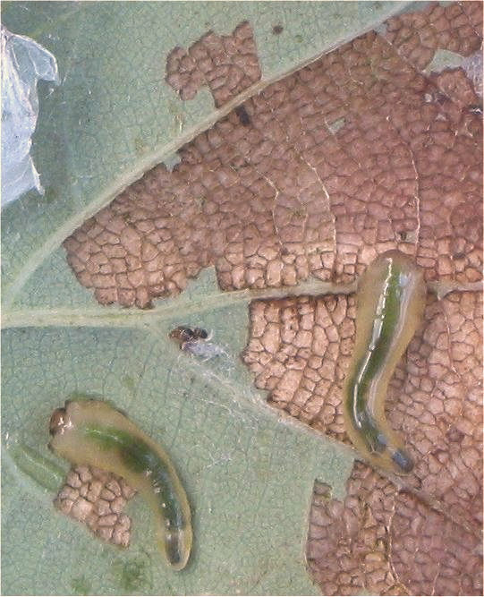 Caliroa annulipes on Quercus robur